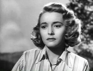 Cropped screenshot of Patricia Neal from the trailer for the film The Fountainhead